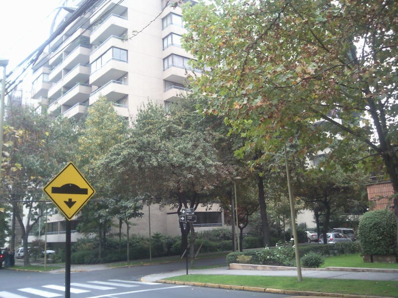 Luxury Apartments, Santiago, Chile.